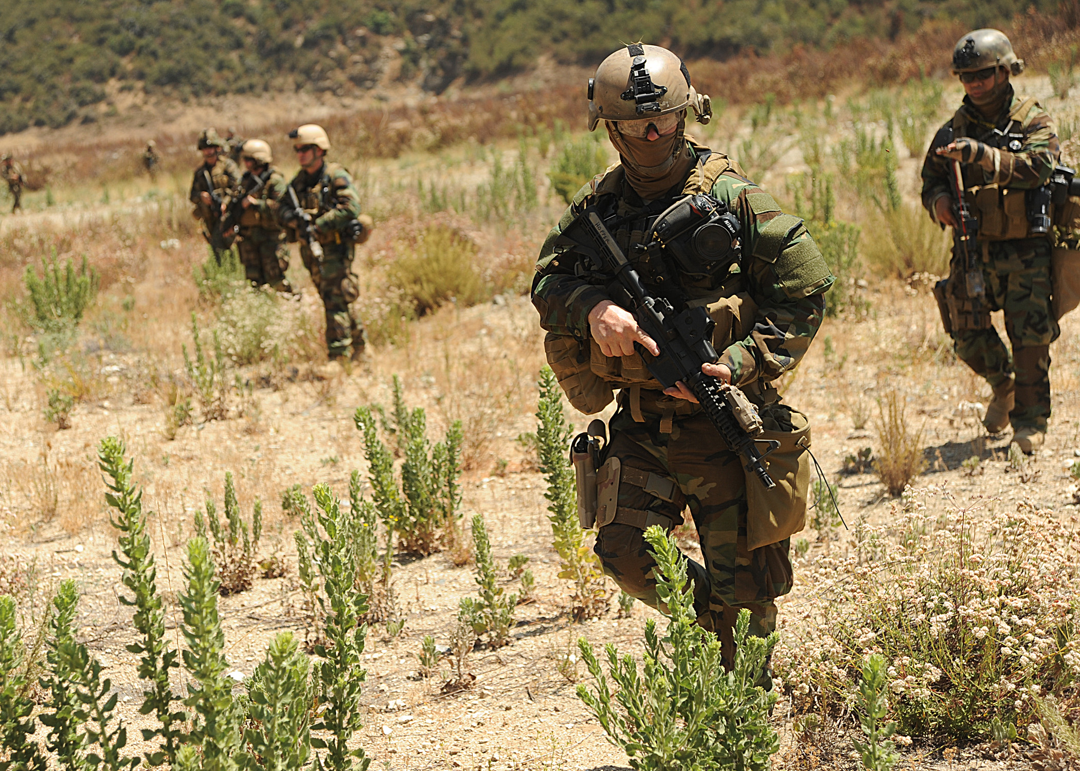 AZUSA, Calif. (Aug. 12, 2011) Mass Communication Specialist 1st Class Matthew Leistikow, assigned to Fleet Combat Camera Group Pacific, leads Sailors in a wedge patrol formation during patrol familiarization as part of the Fleet Combat Camera Group Pacific Summer Quick Shot 2011. Quick Shot is a semi-annual field training exercise intended to train combat camera personnel to operate in a combat environment. (U.S. Navy photo by Mass Communication Specialist 2nd Class David A. Brandenburg/Released)